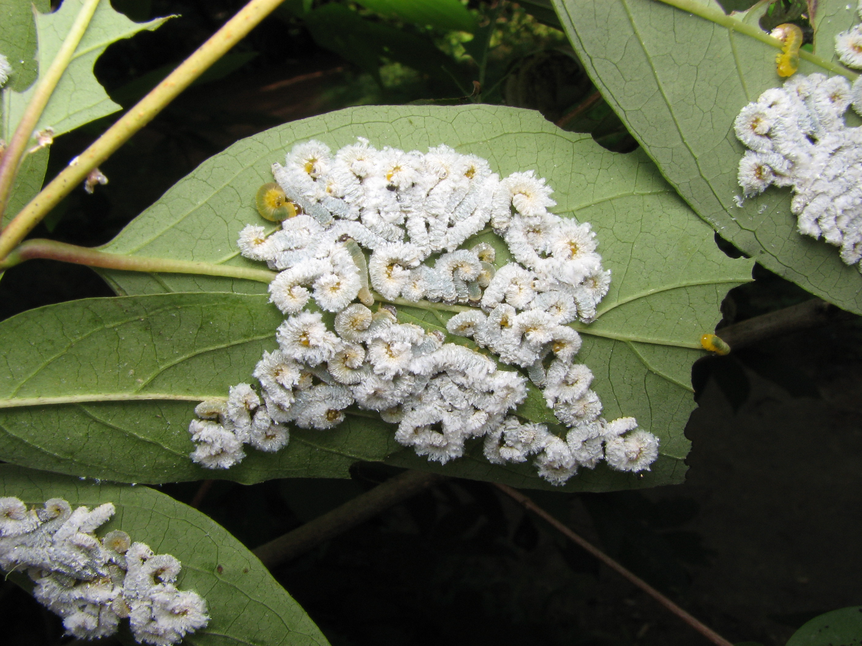 Larvae of sawfly Macremphytus testaceus on dogwood, Cornus sp. Briar Bush Nature Center, Montgomery County, Pennsylvania, USA.